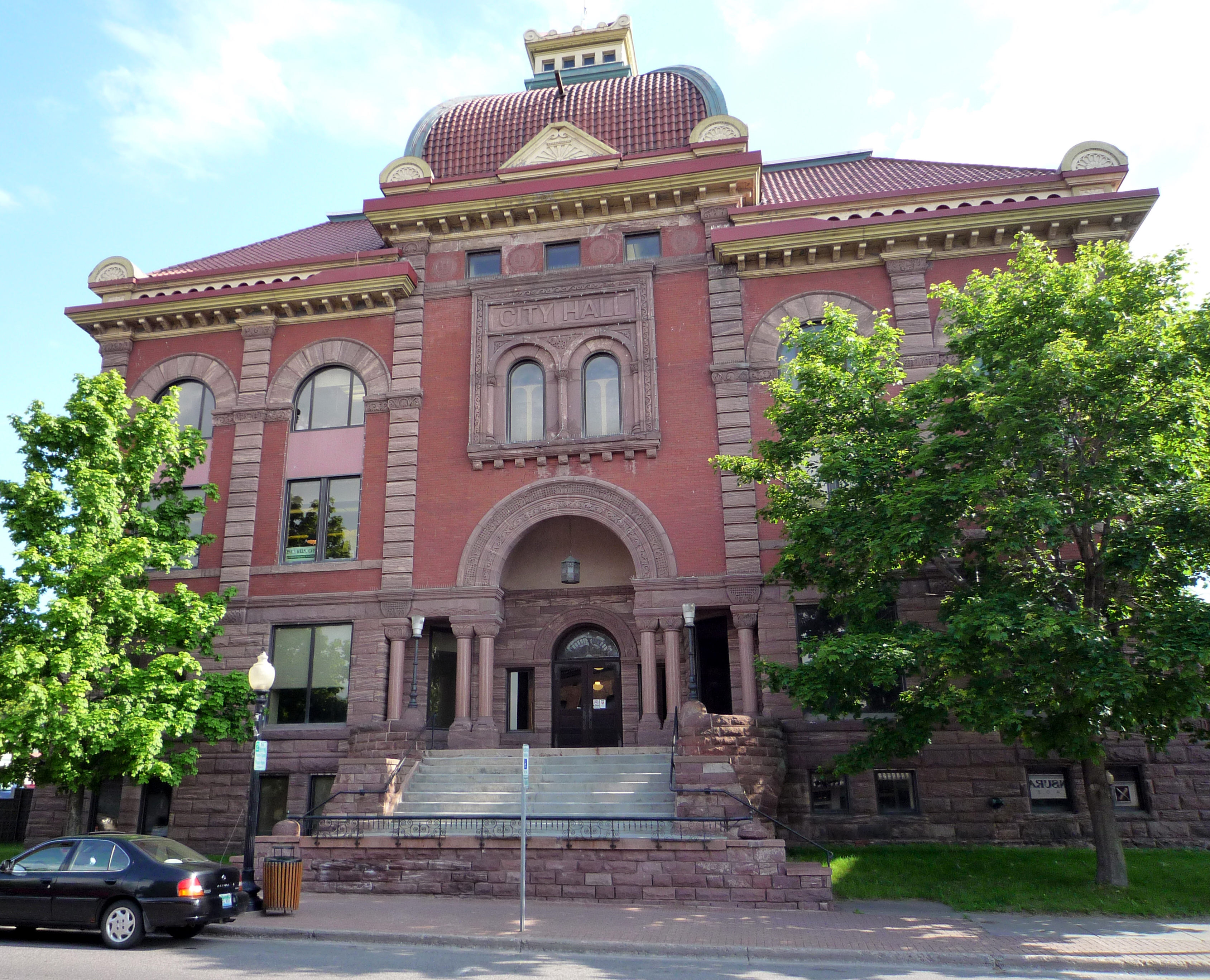 Old City Hall, Marquette, Michigan. The 1894 building is a Registered Michigan State Historic Site, and on the National Register of Historic Places.